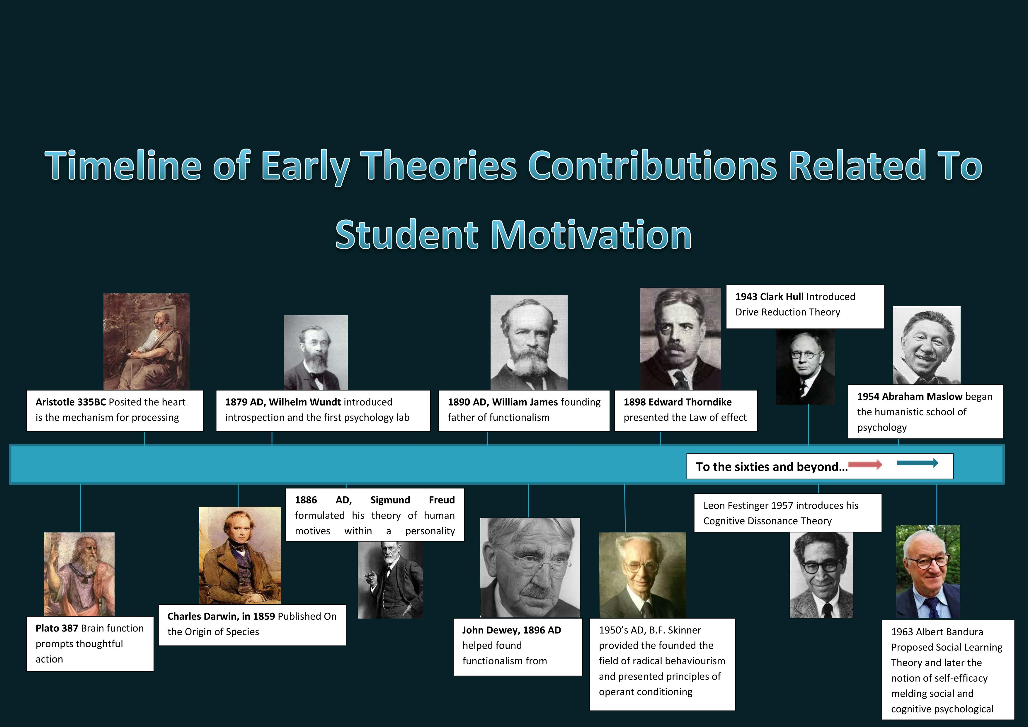 Shows early psychological student motivation theorists.